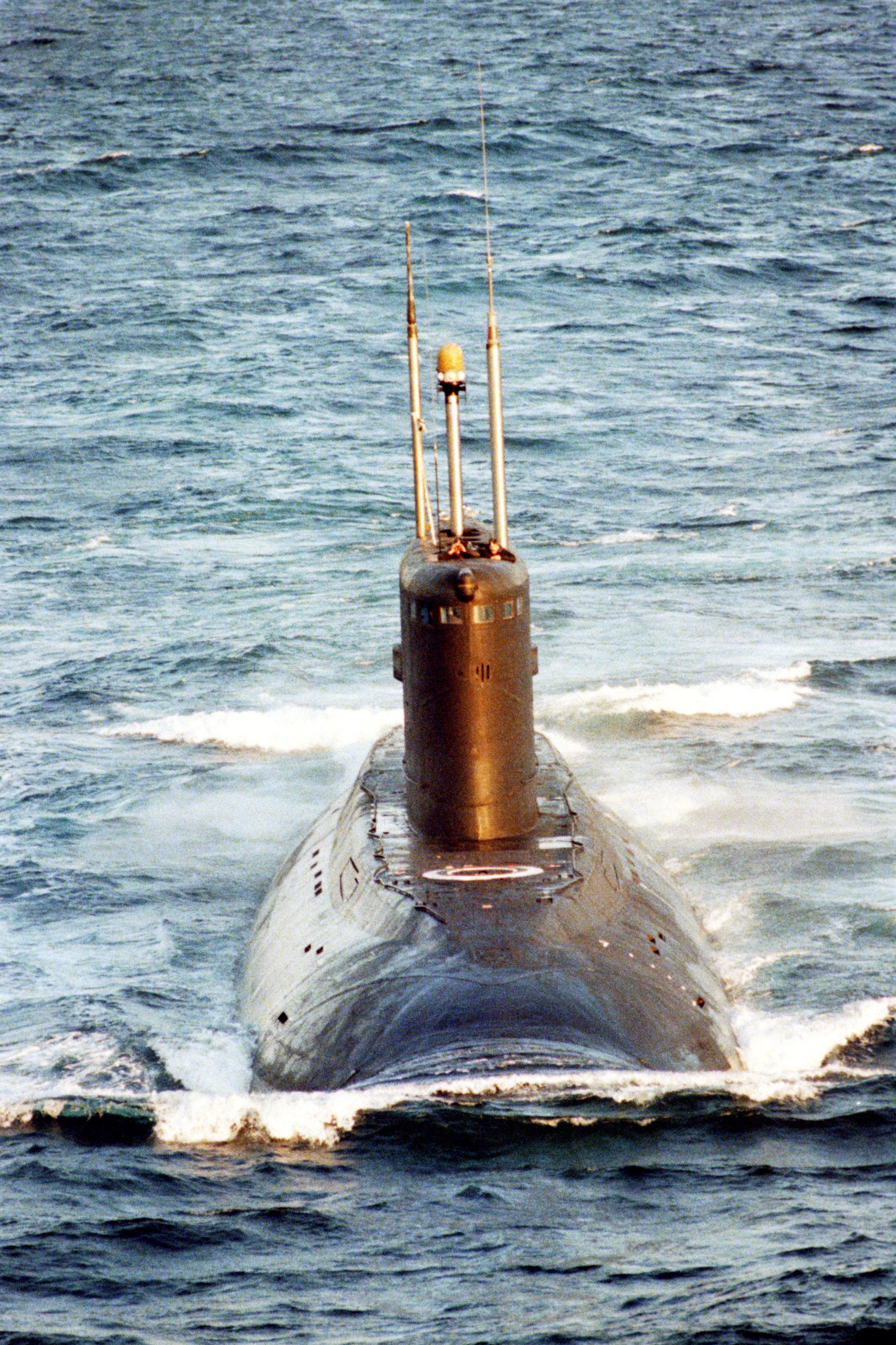 An aerial bow-on view of the Russian Northern Fleet KILO class diesel-powered attack submarine underway on the surface.(Exact date unknown)